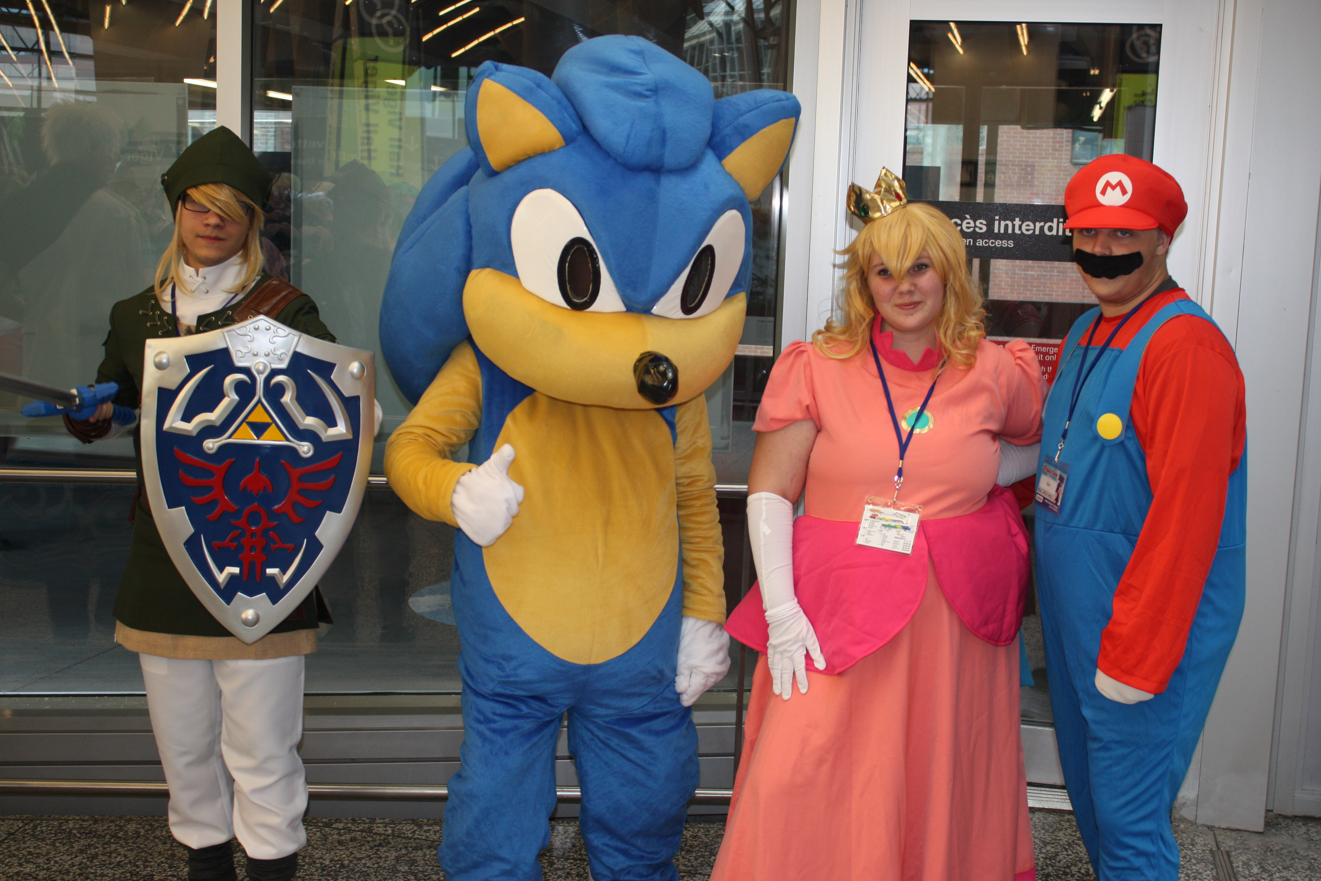 Otakuthon 2014: Super Smash Bros.